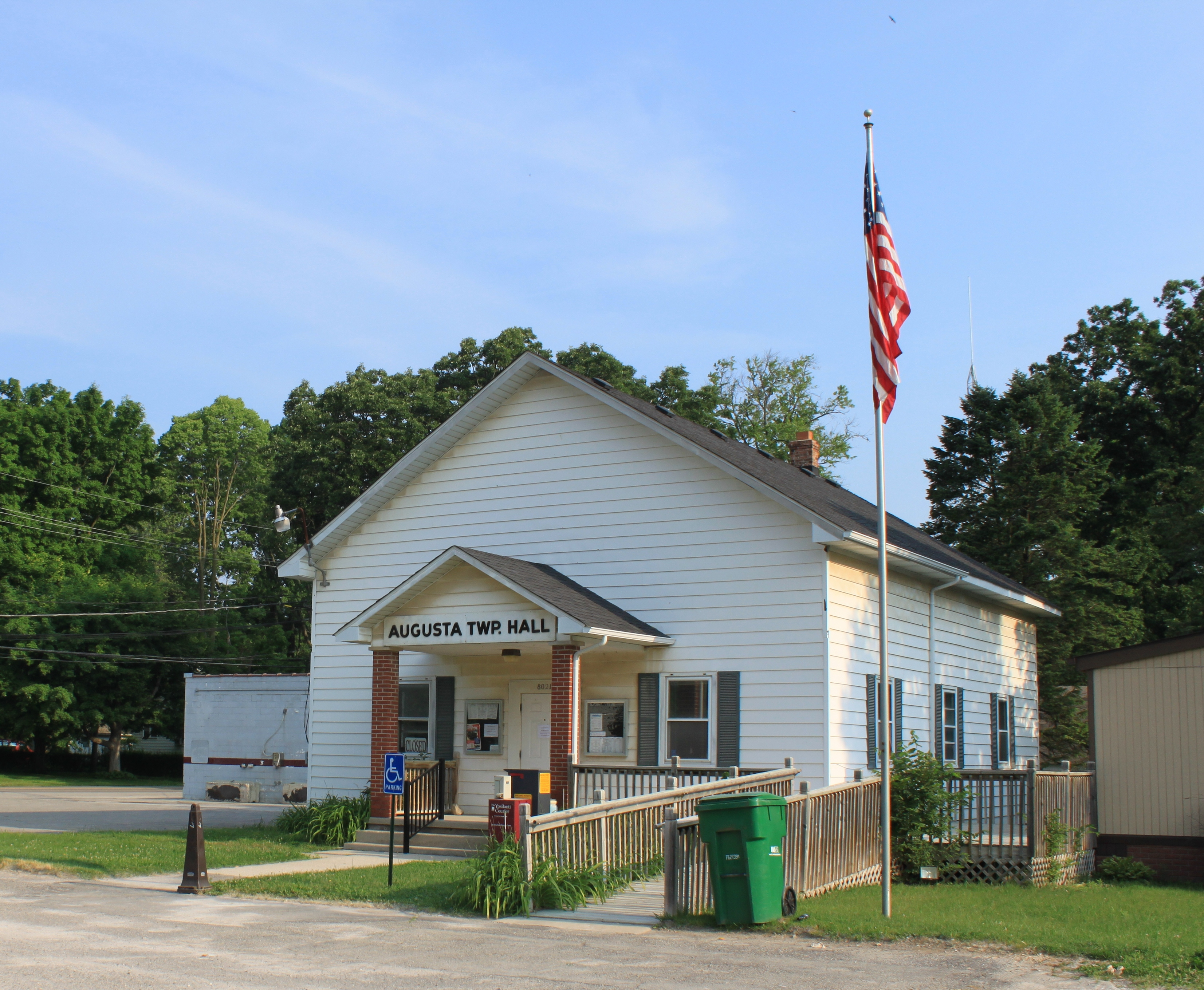 Augusta Township Hall, Michigan, 8021 Talladay